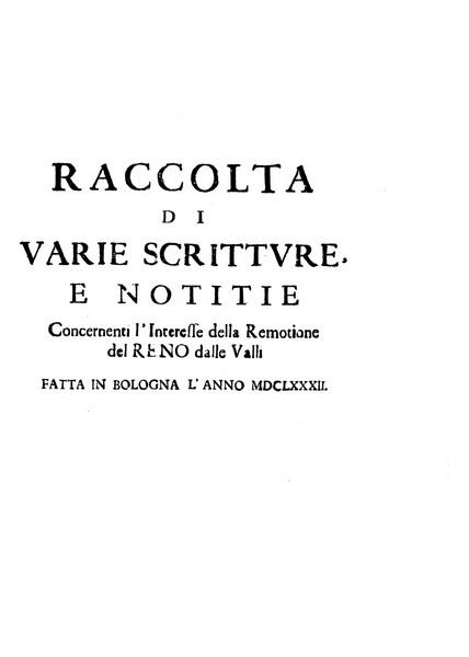 Title page